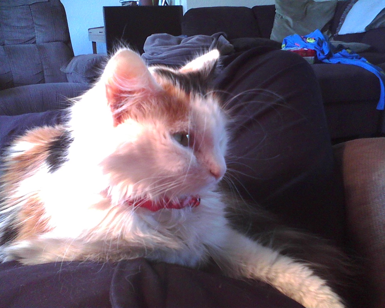 Eight month old kitten in end stage "dry" Feline infectious peritonitis. She had no effusive fluid, and clinical signs of weight loss noted by owner for about a month to six weeks prior to her death, with no weight gain and lethargy increasing, followed by a seizure prompting vet visit. She was diagnosed by a veterinarian as likely to have FIP about two weeks prior to this photo and died less than a week later